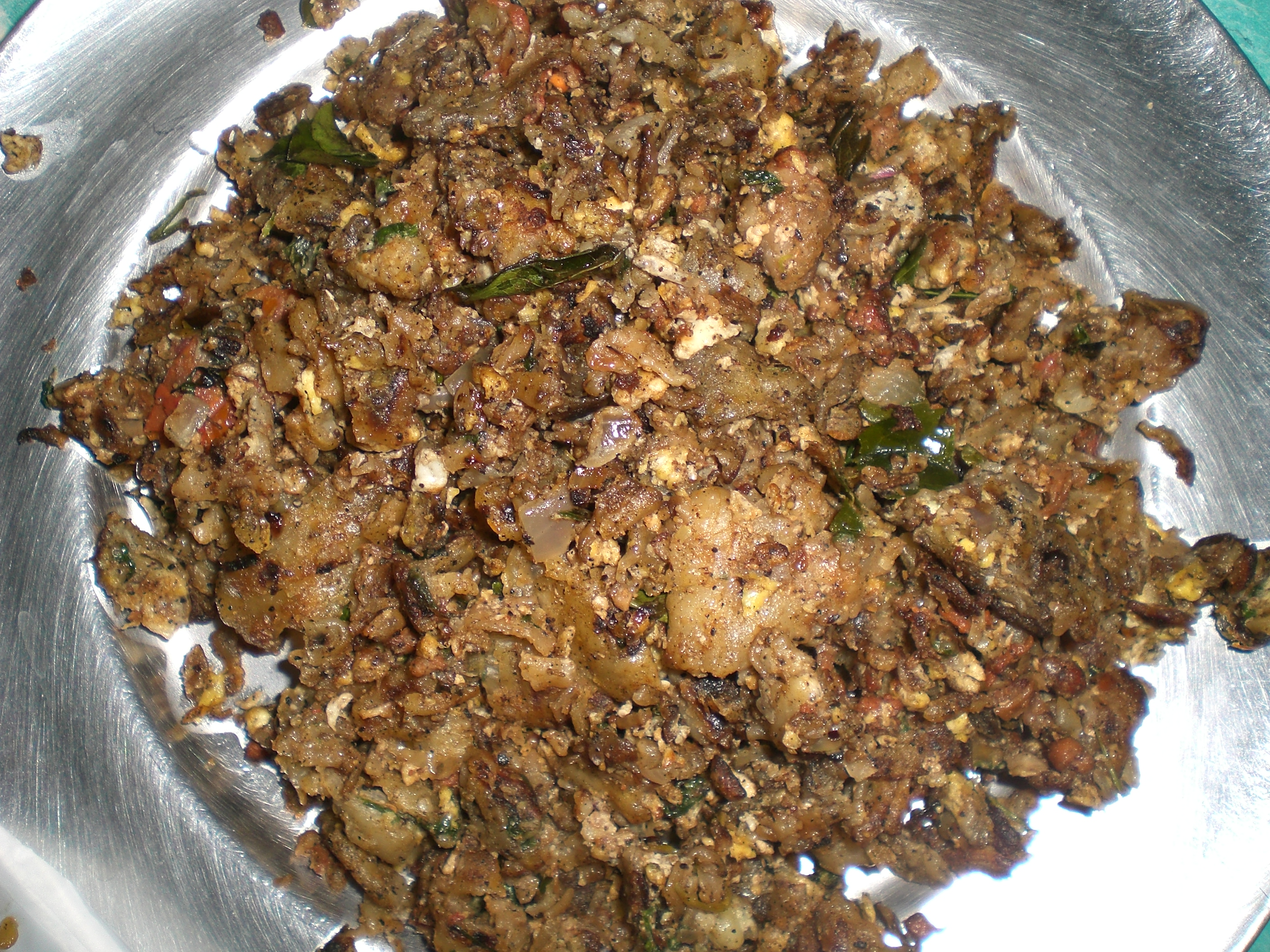 Kotthu Muttai Parotta from Salem, Tamil Nadu